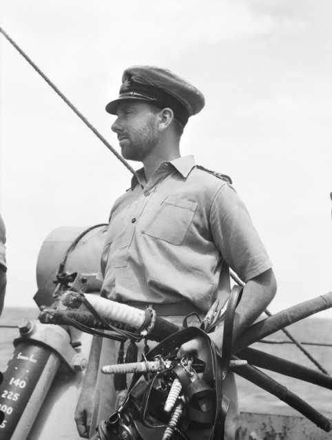 Pre-surrender discussions aboard HMAS Vendetta. Original caption: AT SEA OFF RABAUL, NEW BRITAIN. 1945-09-04. LIEUTENANT E. GERMAINE, ROYAL AUSTRALIAN NAVY, HOLDING THE SWORDS AND DIRKS OF THE JAPANESE ENVOYS DURING PRE- SURRENDER DISCUSSIONS ABOARD HMAS VENDETTA AT A SEA RENDEZVOUS OFF RABAUL BETWEEN REPRESENTATIVES OF LIEUTENANT GENERAL V.A.H. STURDEE, GENERAL OFFICER COMMANDING FIRST ARMY, AND GENERAL H. IMAMURA, COMMANDER EIGHTH AREA ARMY.